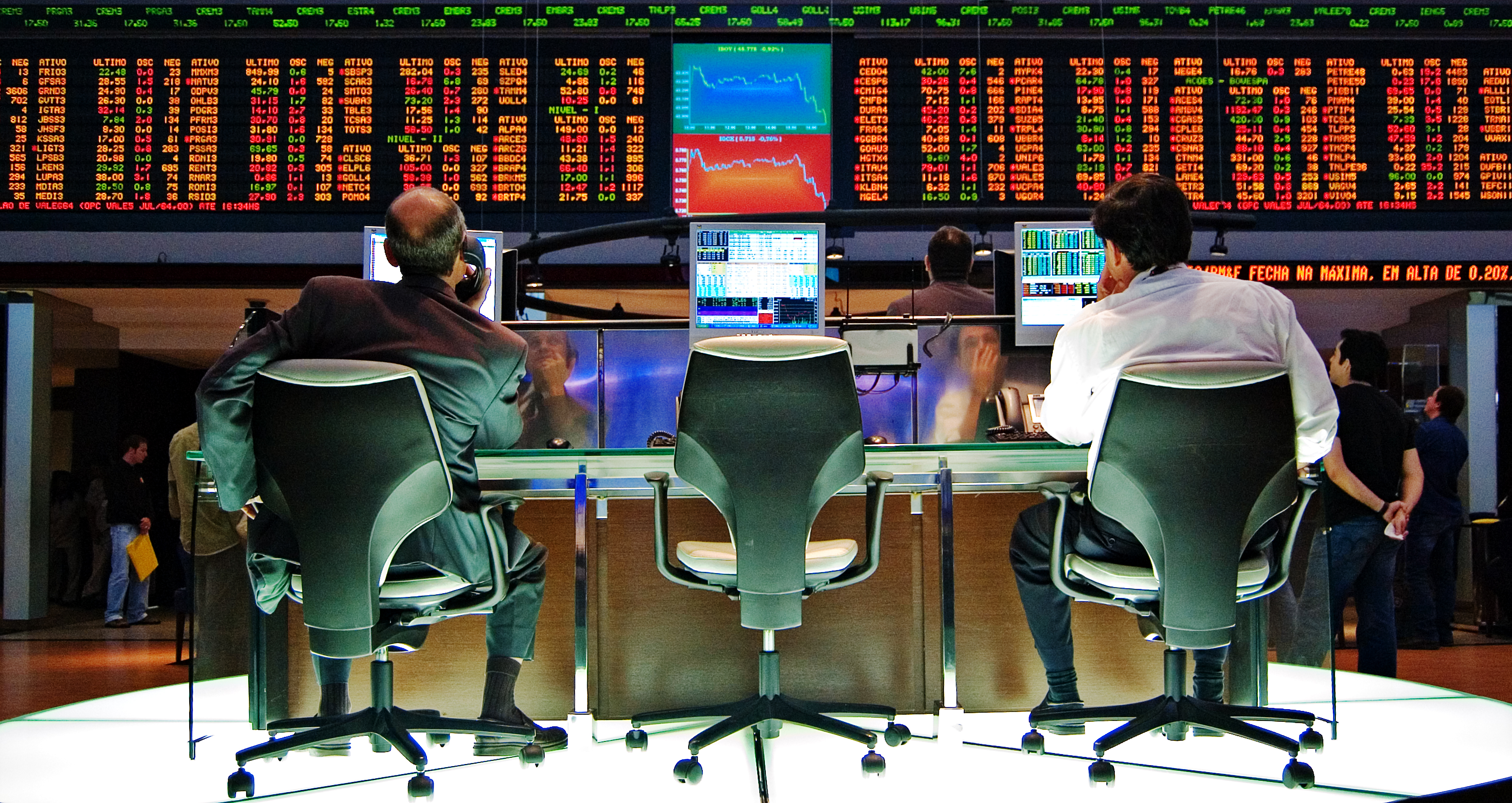 The São Paulo Stock Exchange (Bovespa).That was supposed to be going up, wasn't it?